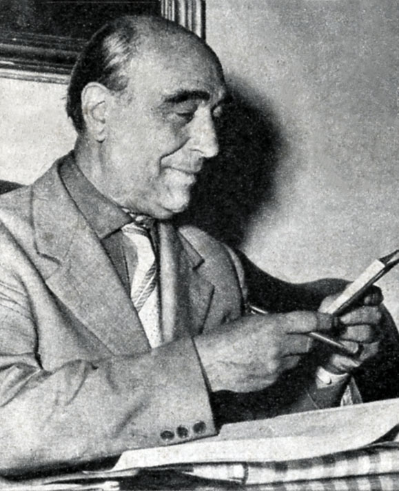 photo from the Italian magazine Radiocorriere (1955)